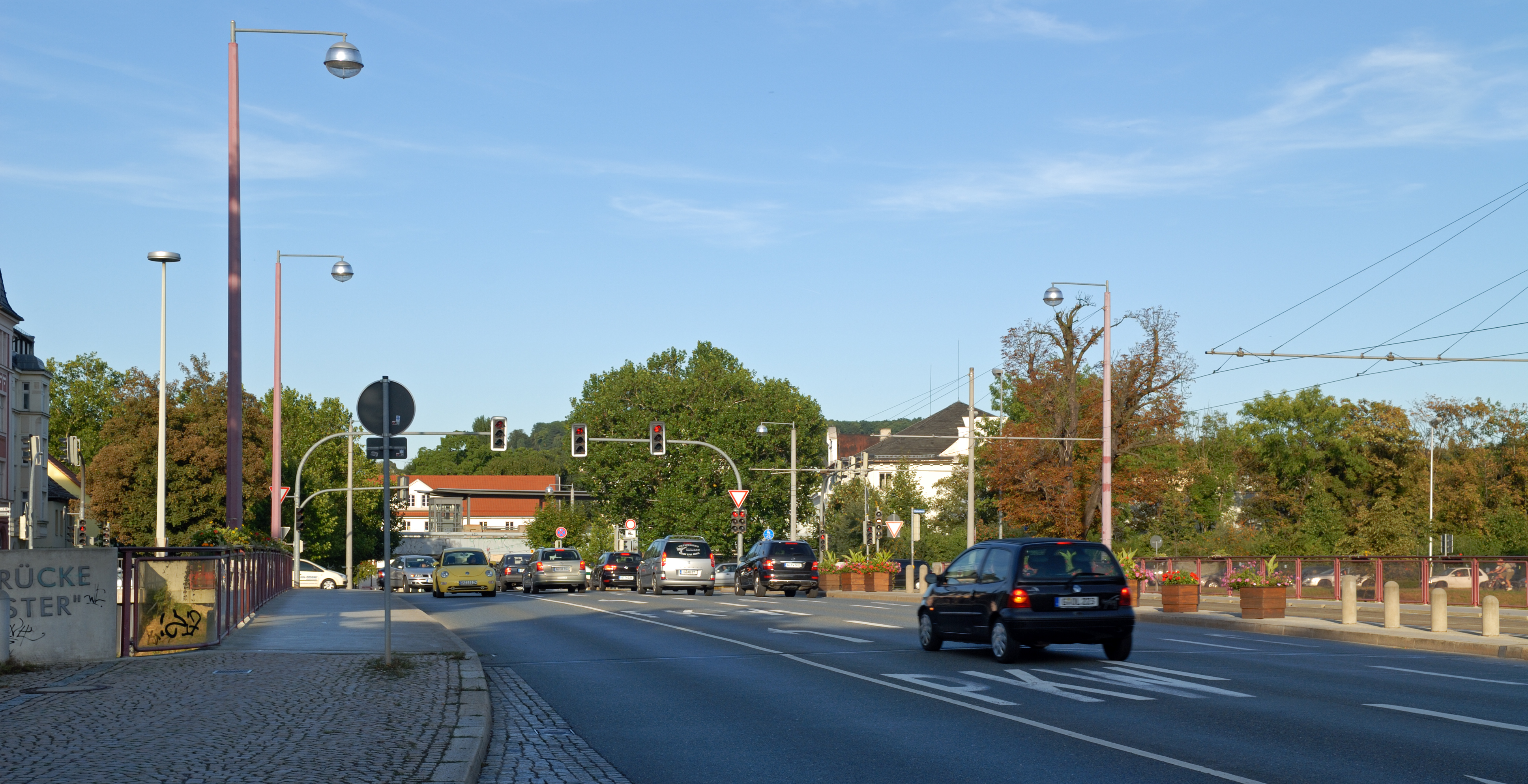 This image shows the Heinrichsbrücke ("Heinrich bridge") in Gera, Germany.